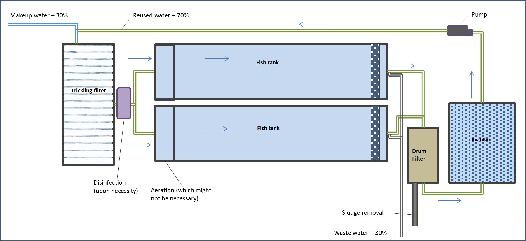 A Recirculating aquaculture system model with 70% degree of recirculation.